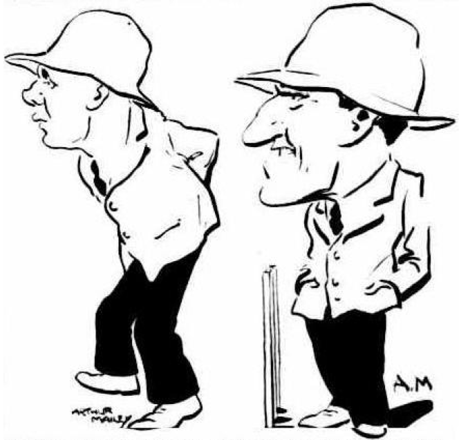 Cartoon of Australian cricket umpires George Hele and George Borwick, drawn during the 1932–33 Bodyline series.